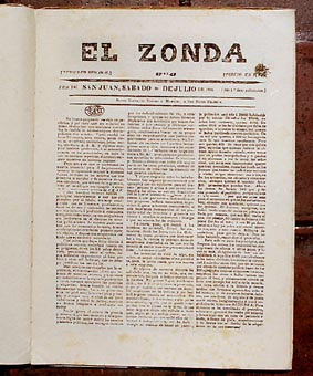 Cover of El Zonda, a newspaper edited by Domingo Faustino Sarmiento in San Juan.